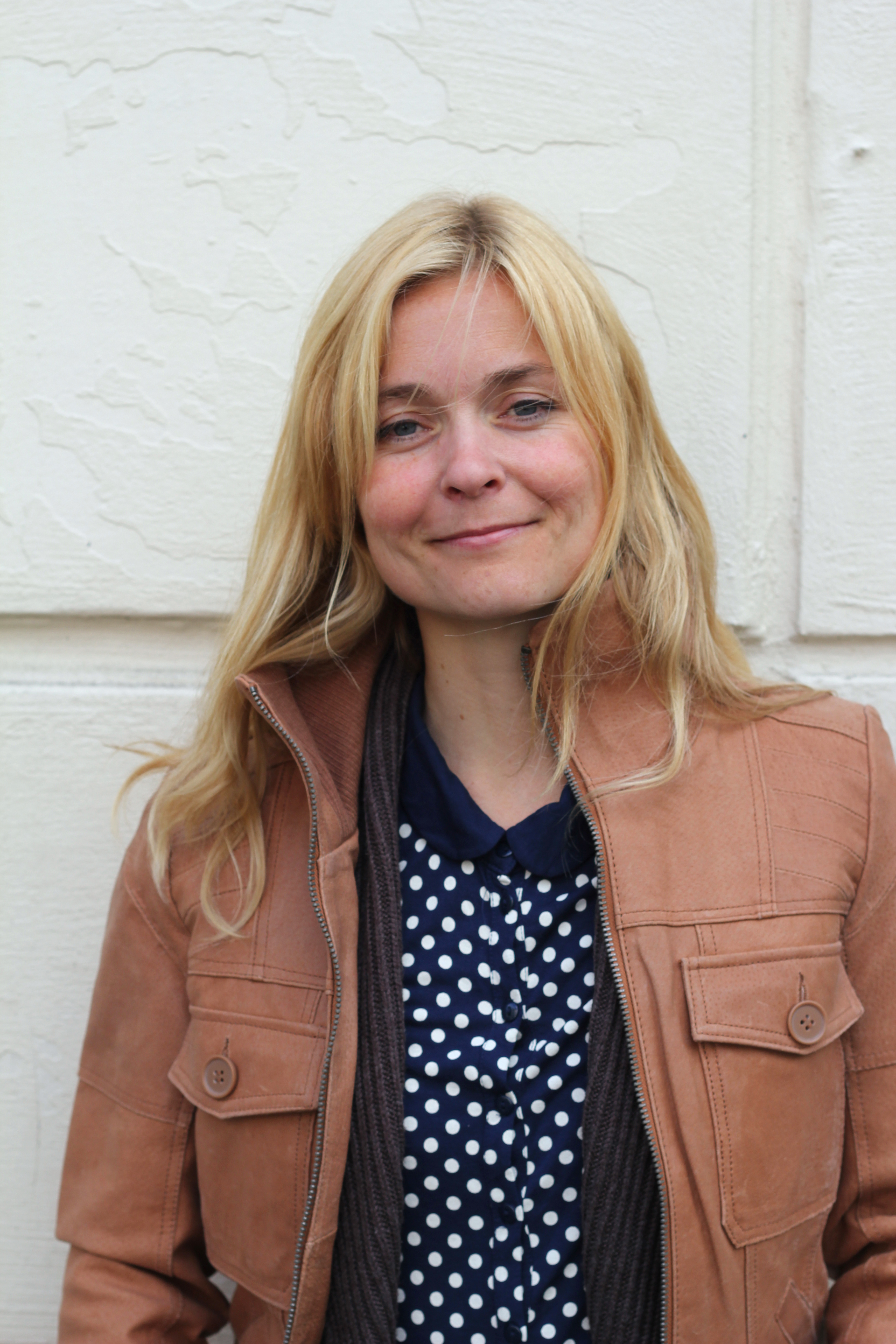 Marielle Leraand is deputy leader of the norwegian Red Party (Rødt).